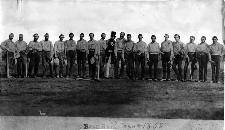 The New York Knickerbockers, the first organised baseball team (left), posing with their rivals.